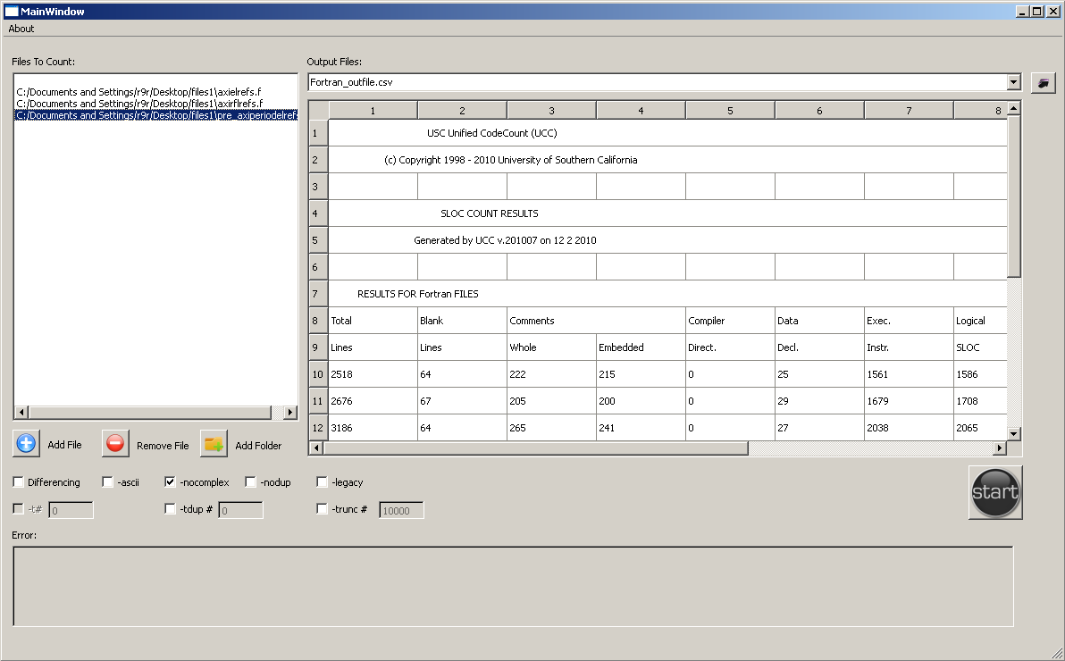 USC Unified CodeCount (UCC)v.201007, first release to feature GUI interface of UCC utility